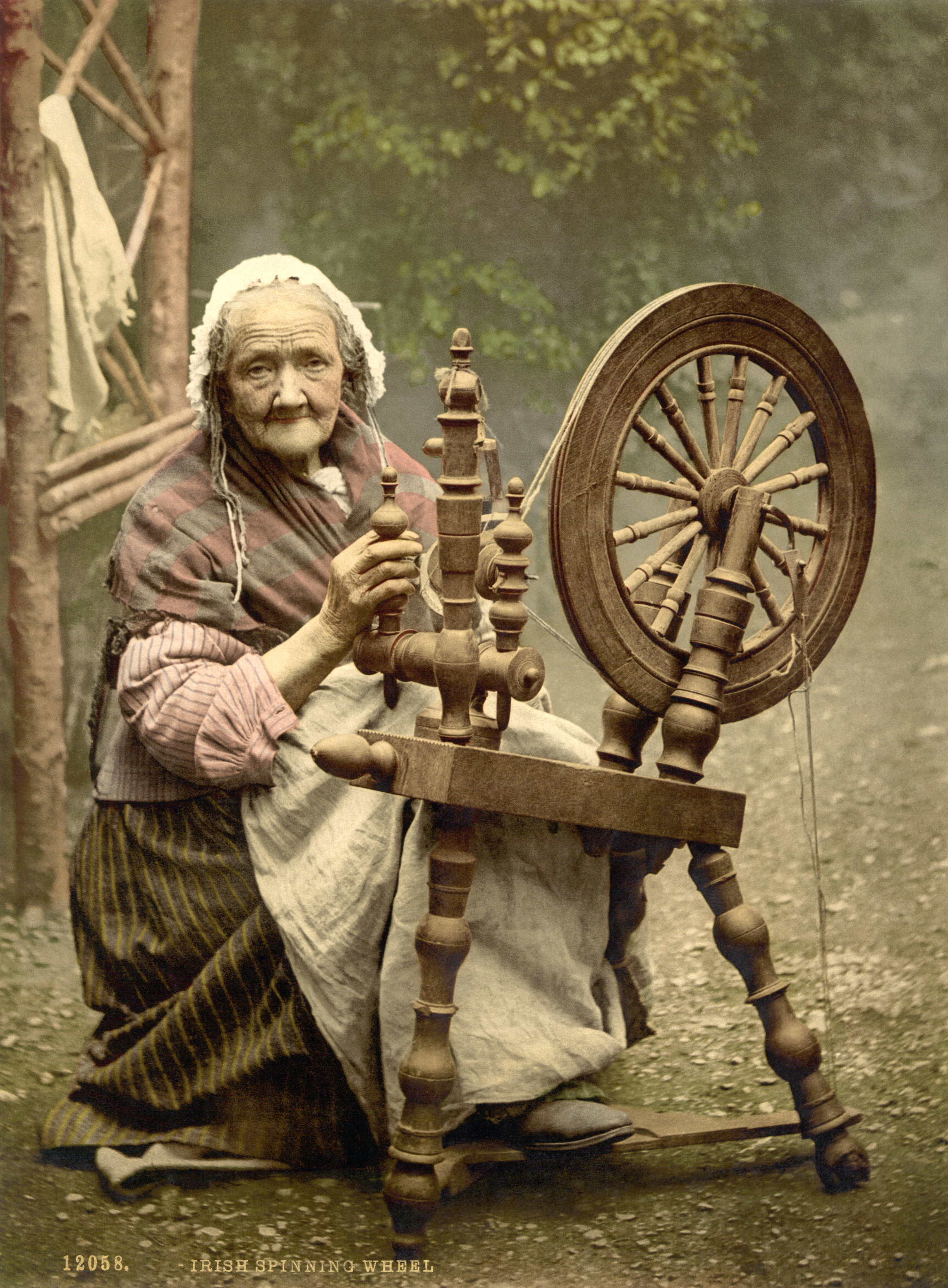 Photochrom print of an elderly Irish woman at a spinning wheel. Note: This is a posed nostalgia photograph, since the spinning wheel had gone out of use in almost all practical everyday contexts for a half-century or more by the time this picture was taken.